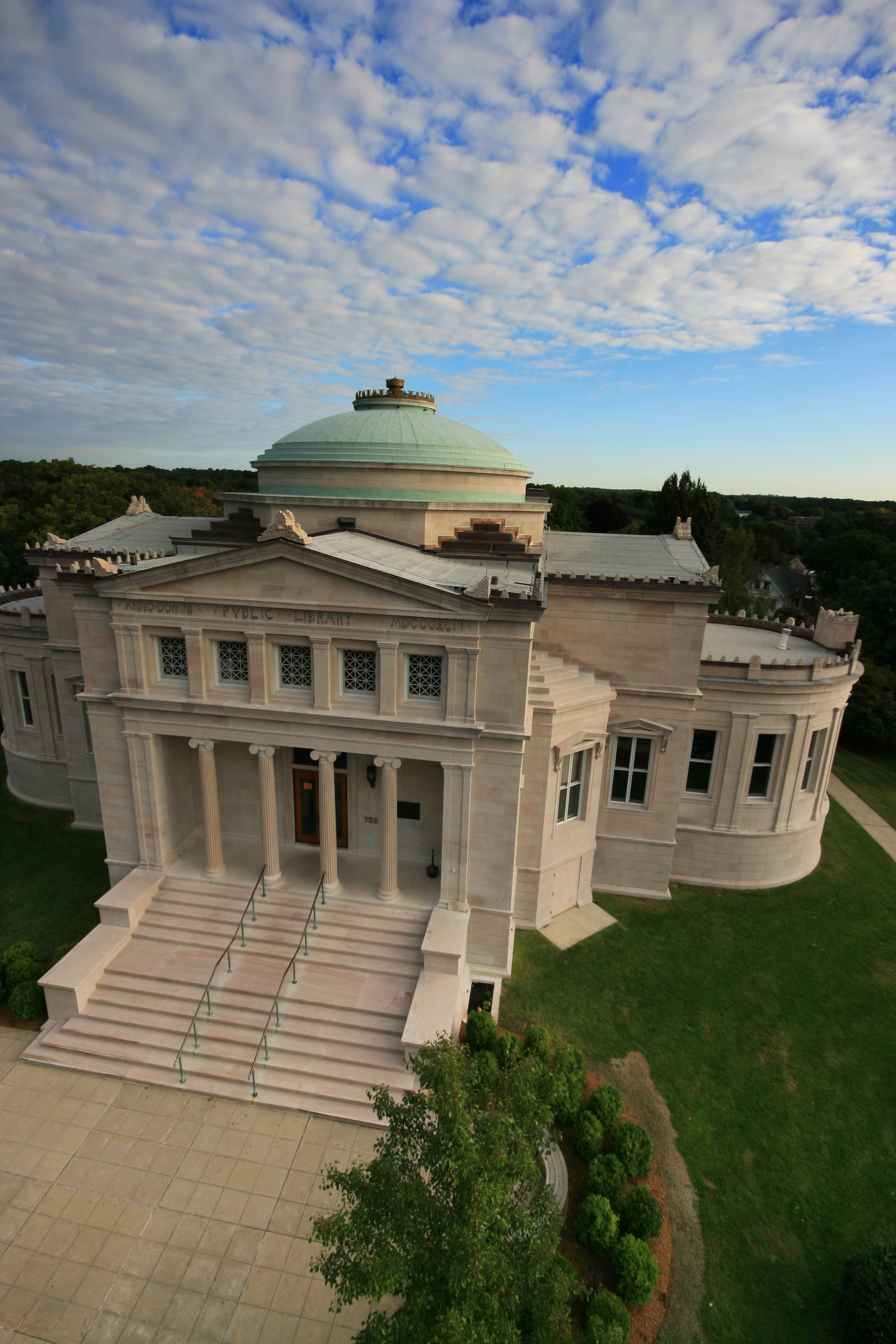 James Blackstone Memorial Library, viewed from above